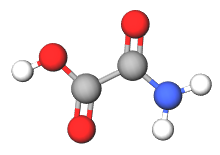 Ball And Stick Model Of Oxamic Acid